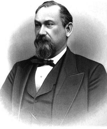 Portrait of Thomas M. Holt, industrialist and governor of North Carolina, and member of the Holt family of Alamance County, North Carolina, pioneers of the textile industry of the South.